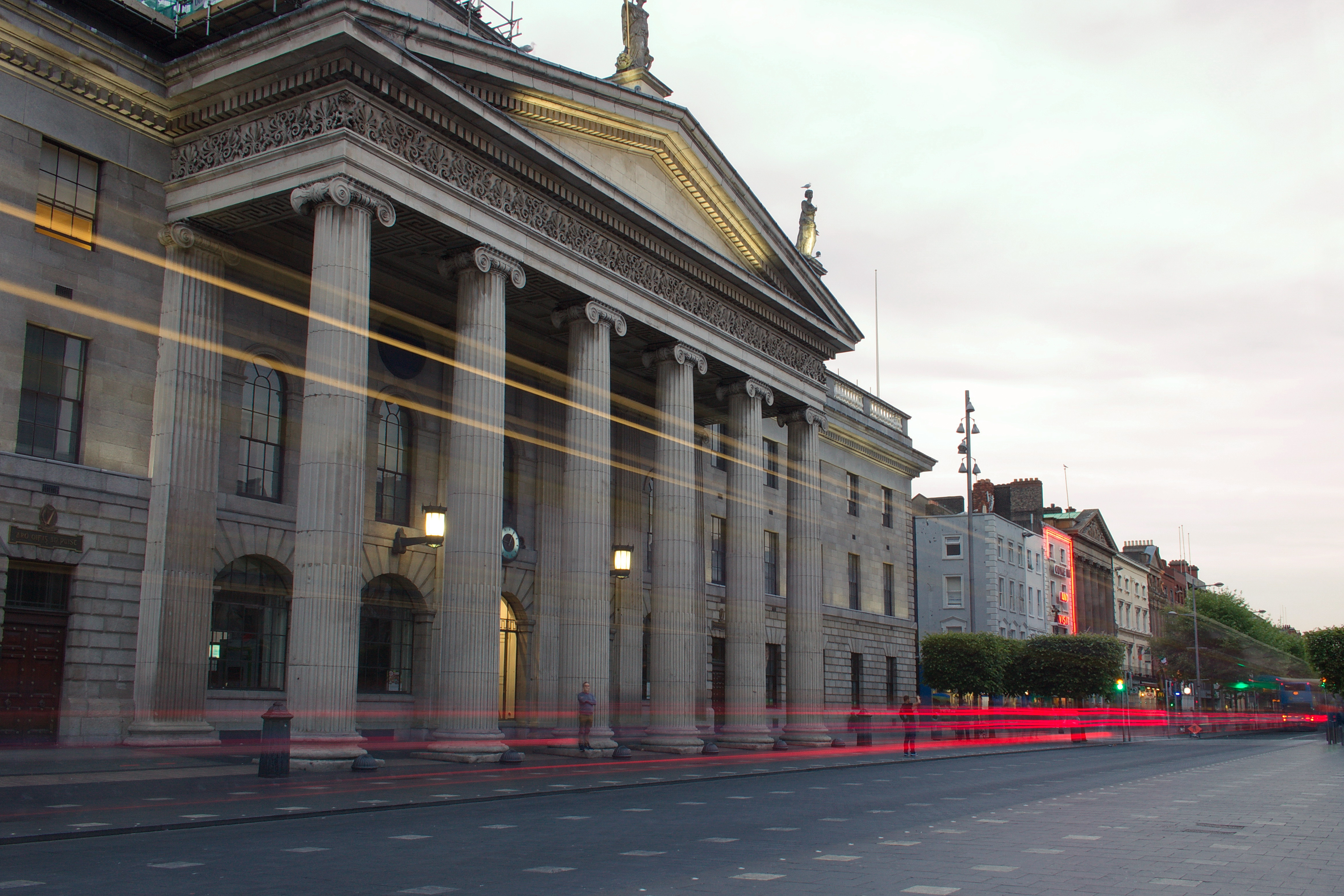 The General Post Office, O'Connell St Lower, Dublin, Co. Dublin, Ireland